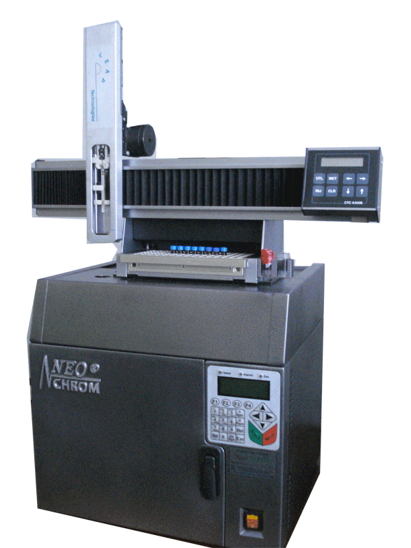 Sample of gas chromatograph with auto sampler